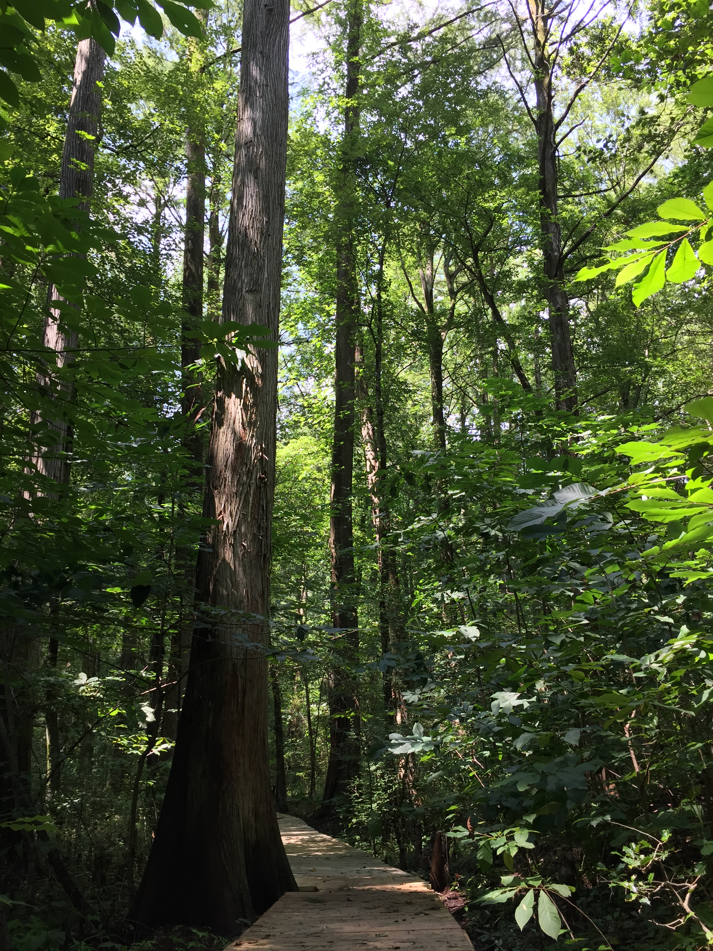 View along the boardwalk trail at the Battle Creek Cypress Swamp in Calvert County, Maryland